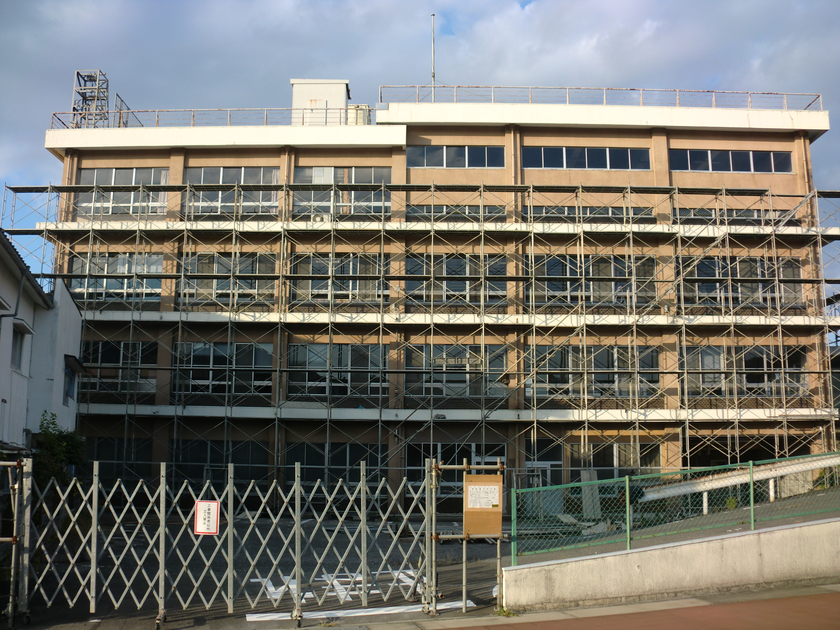 Minamata Police station 1967-2008